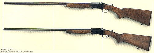 BERSA Shotgun